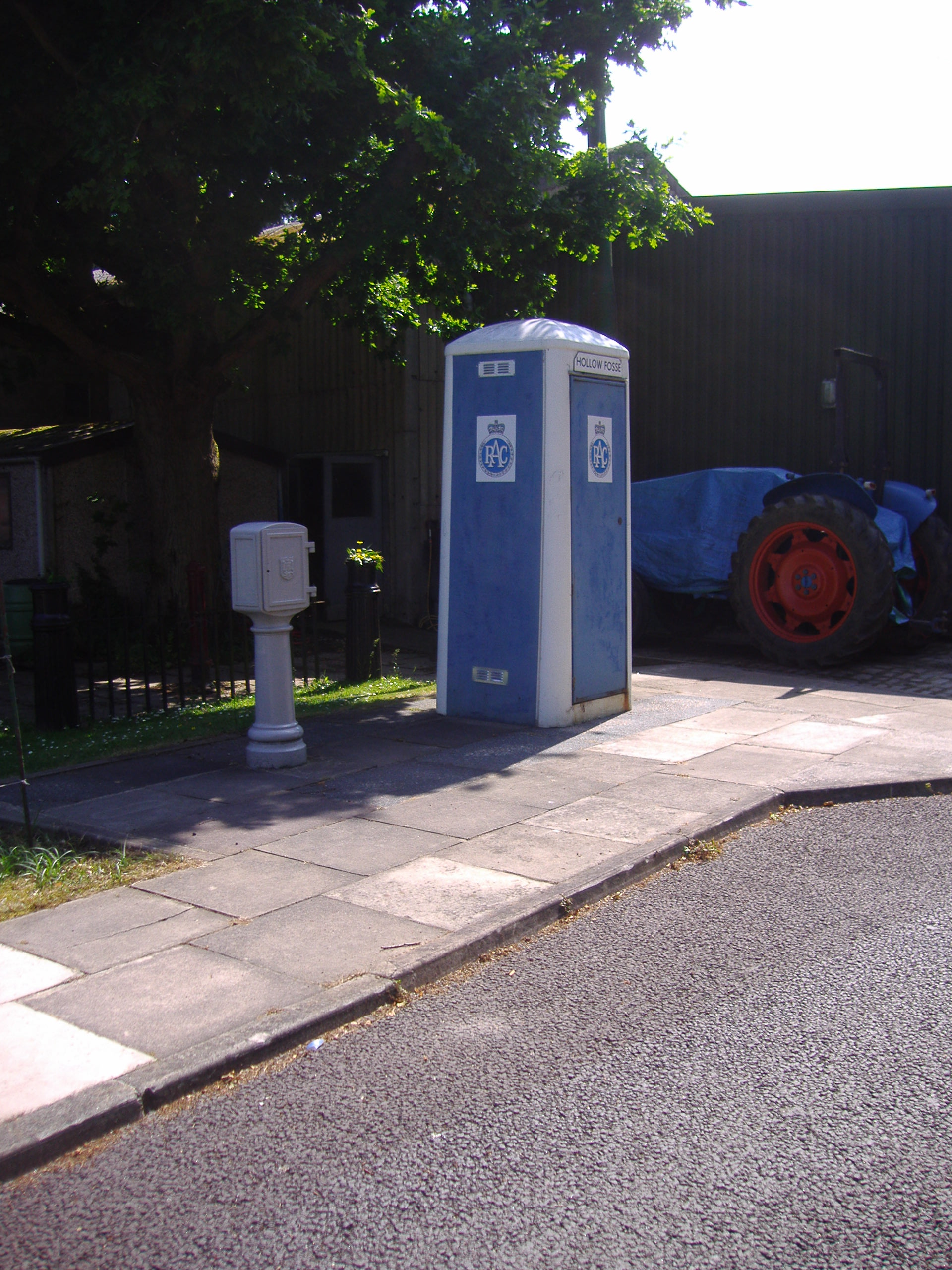 An RAC roadside telephone box located at the Lowestoft Museum of Transport, Carlton Colville, Suffolk